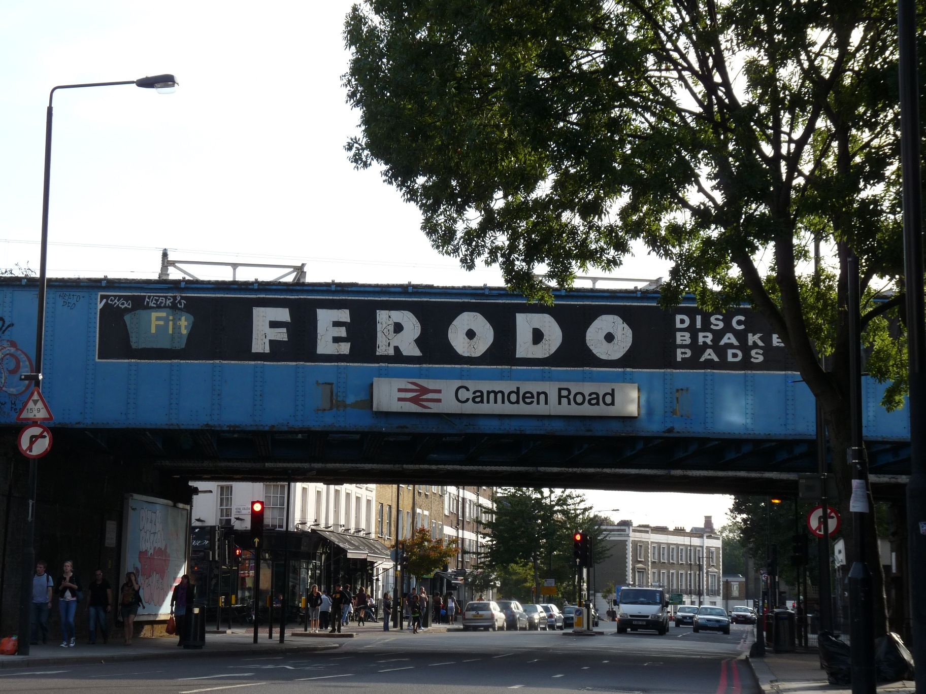 A "Ferodo bridge" at Camden Road railway station, in North London. Ferodo are a manufacturer of automotive brake parts who are known for advertising on railway bridges, often with just the brand name.